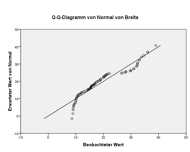 Q-Q-Plot of the width of warships; comparison with a normal distribution